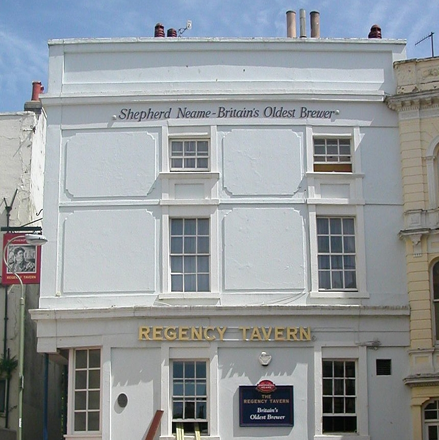 Regency Tavern, Regency Square, Brighton, City of Brighton and Hove, England. An early 19th-century pub at the northeast corner of this prestigious residential square. Listed at Grade II by English Heritage (IoE Code 481140)